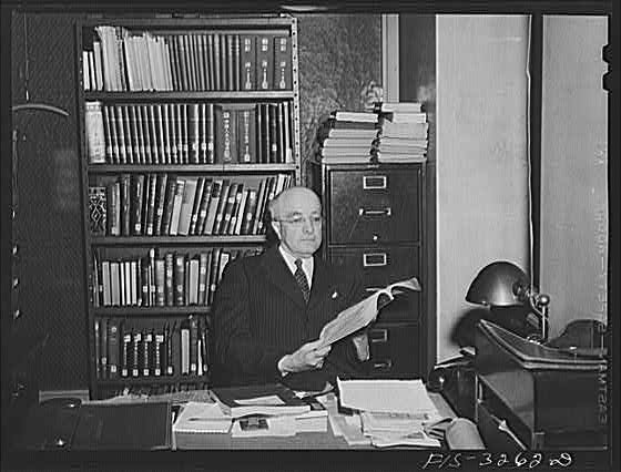 Arthur W. Hummel, Sr., chief of Orientalia Department at the Library of Congress.